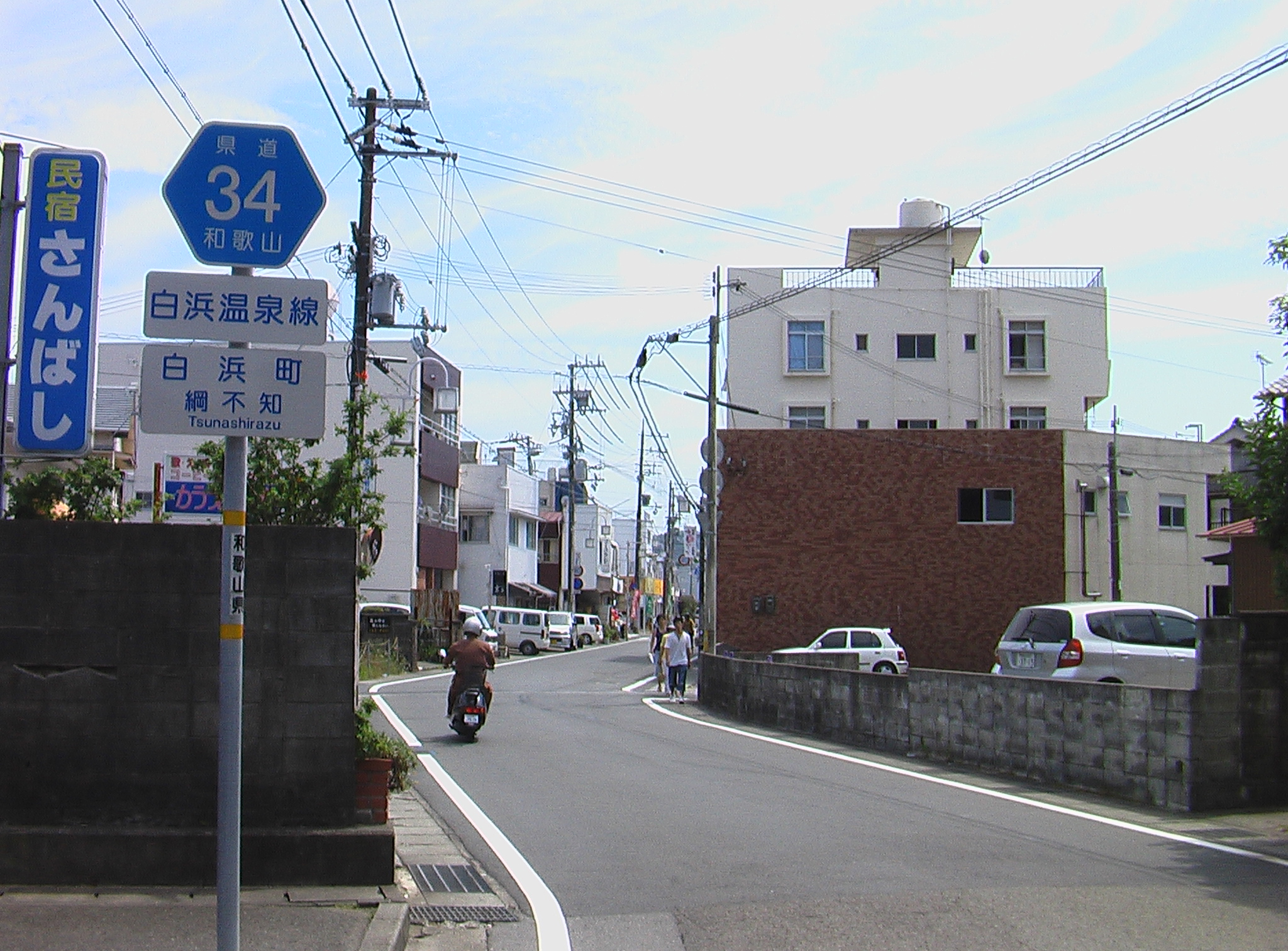 The Wakayama Prefectural Road Route 34 in Shirahama